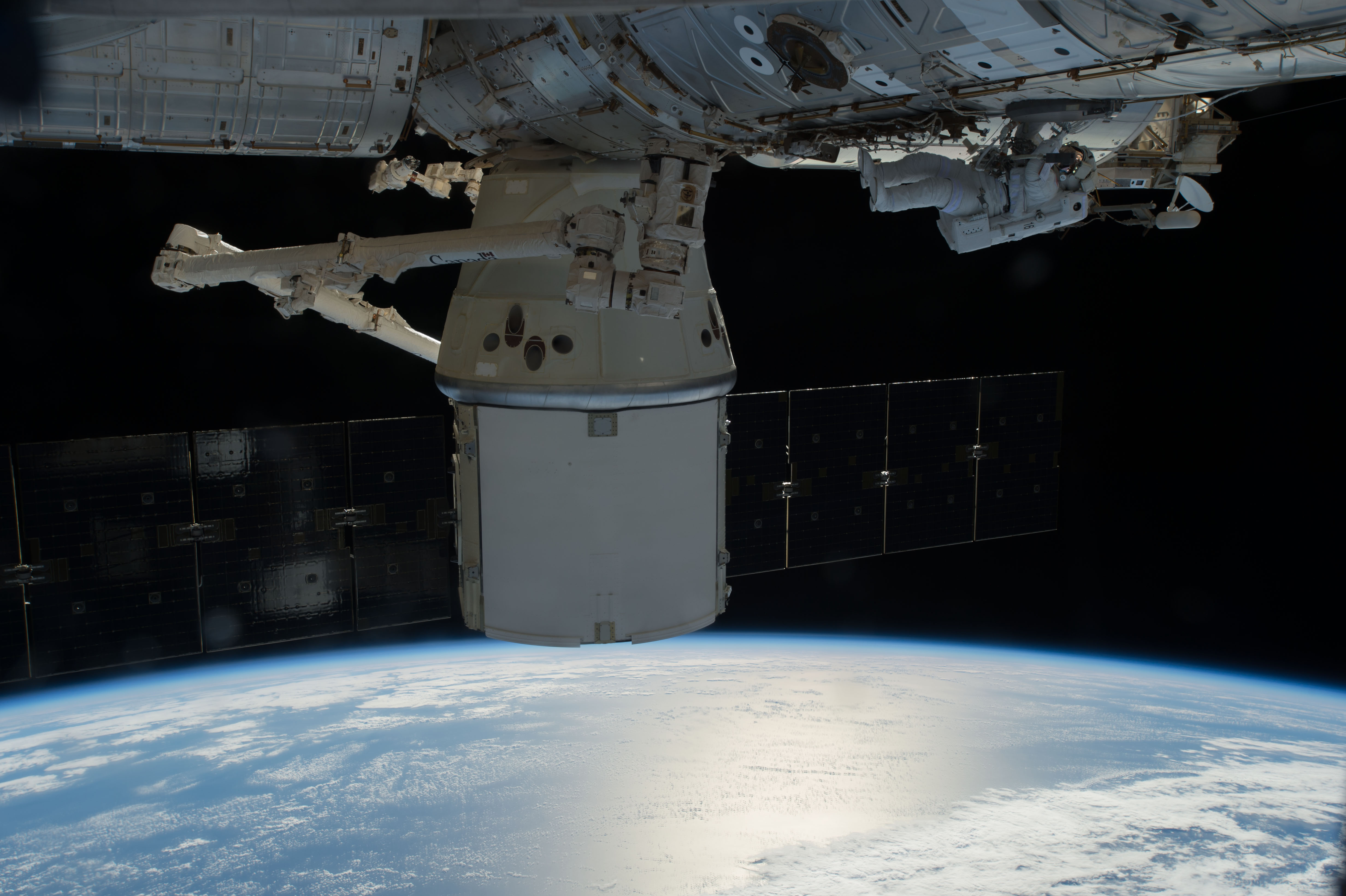 Expedition 48 Commander Jeff Williams and Flight Engineer Kate Rubins (pictured) of NASA conducted a five-hour and 58-minute spacewalk on Aug. 19, 2016. The pair installed the first of two international docking adapters (IDAs) that will be used for the future arrivals of Boeing and SpaceX commercial crew spacecraft in development under NASA’s Commercial Crew Program. Commercial crew flights from Florida’s Space Coast to the International Space Station will restore America’s human launch capability and increase the time U.S. crews can dedicate to scientific research, which is helping prepare astronauts for deep space missions, including the journey to Mars.